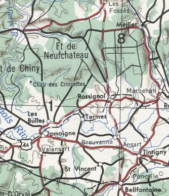 Extract of map showing surroundings of rossignol